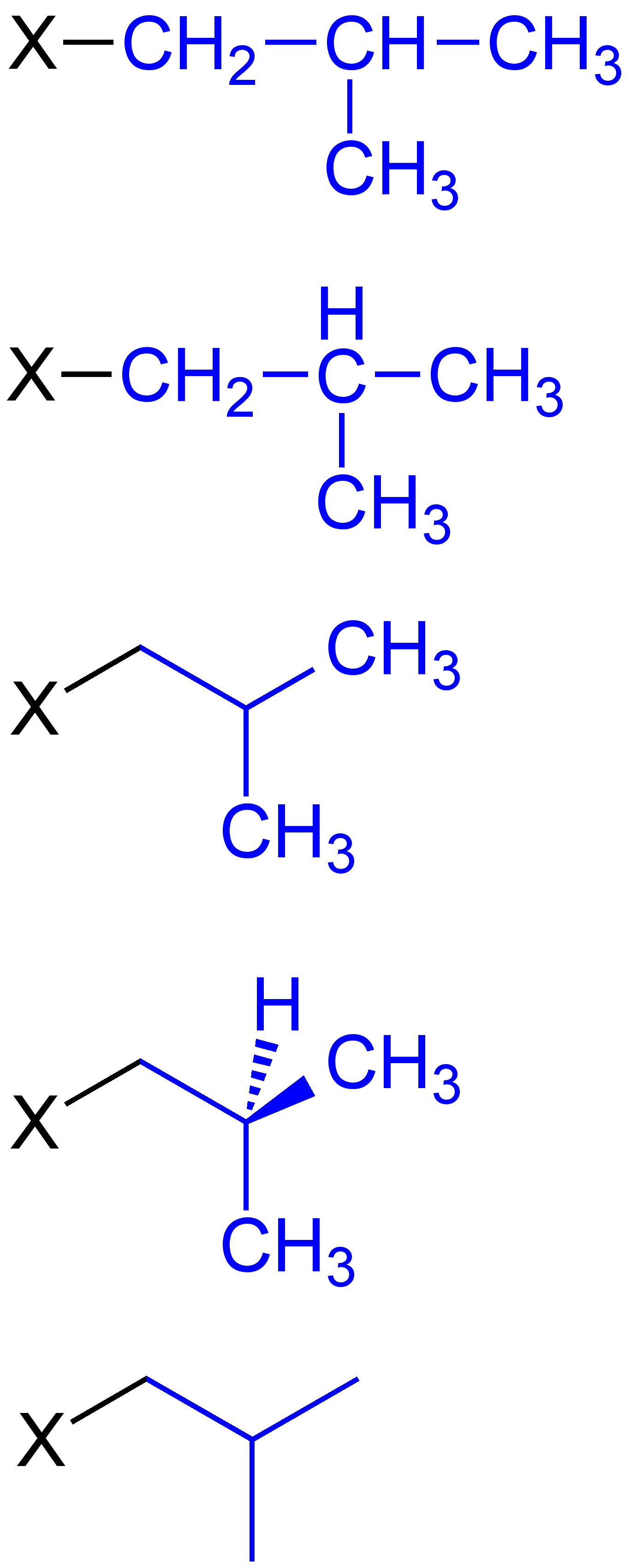 Various_Presentations_of_an_Alkyl_Group